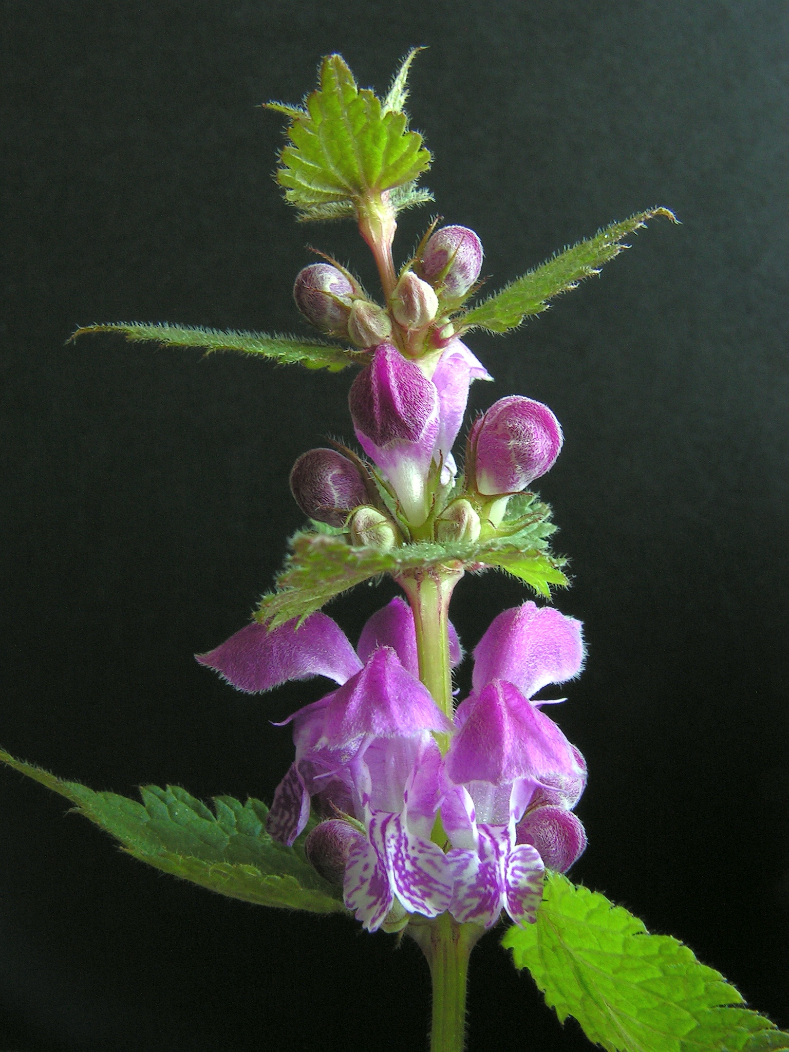 Flowering Spotted deadnettle. Height of the individual flower is appr. 2 cm.